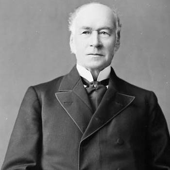 Hon. Thomas Temple, Senator.